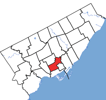 University-Rosedale in relation to the other Toronto ridings (2015 boundaries)